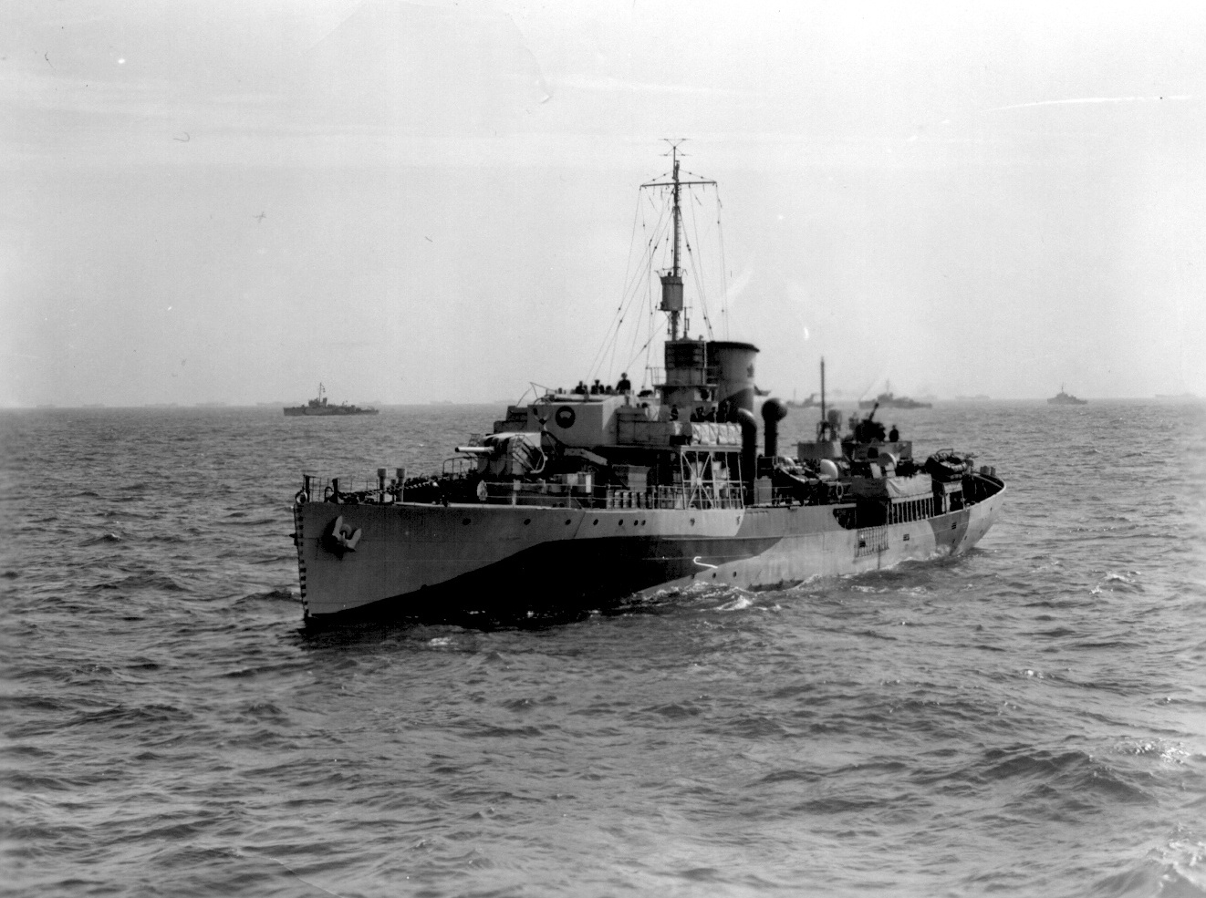 The HMCS Baddeck on June 10, 1944.